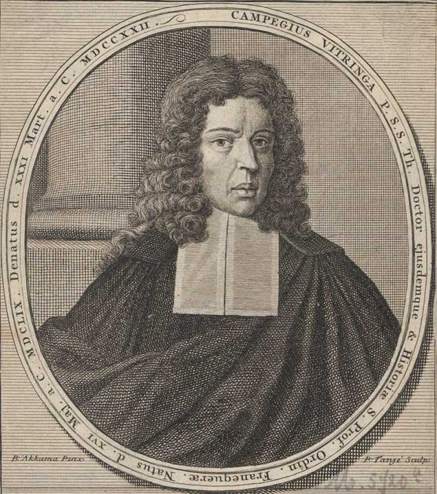 Campegius Vitringa the Elder (1659-1722) Theologian from the Netherlands